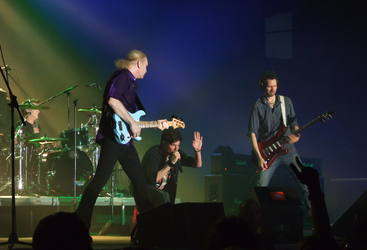 Mr.Big at Festivalna Hall, Sofia, Bulgaria.